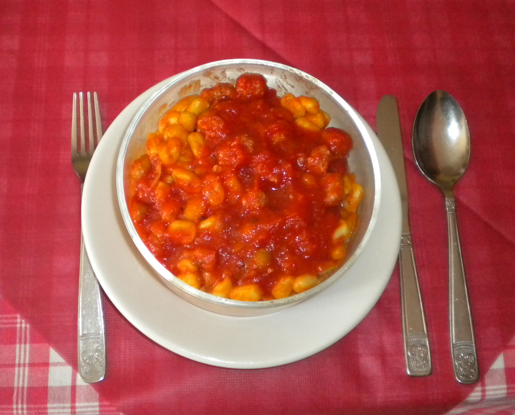 A dish of pisarei e fasö, tipical region gnocchi of Piacenza with beans